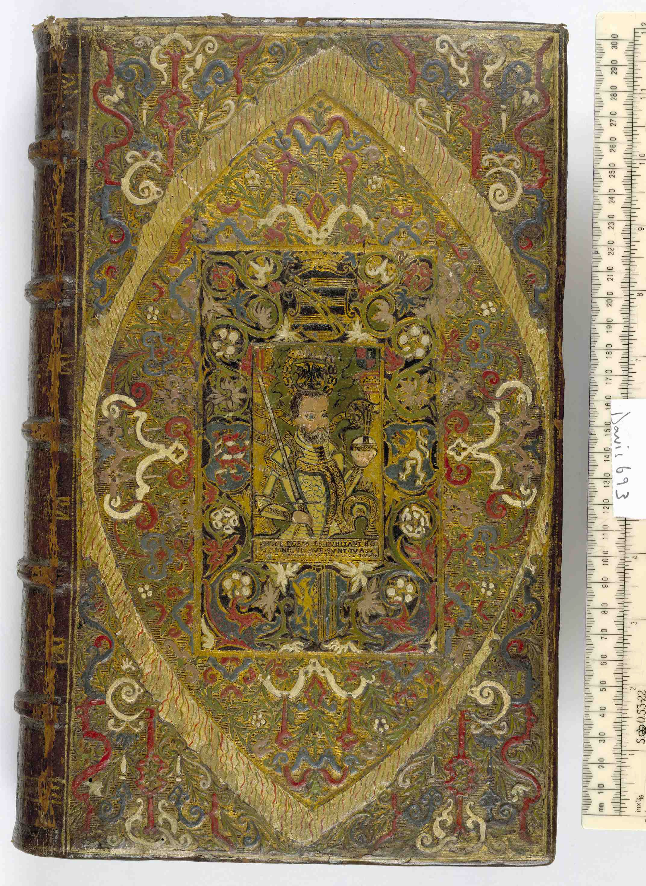 Style: Unspecified; Caption: Upper cover; Colour: Brown; Edge: Gilt, gauffered and painted